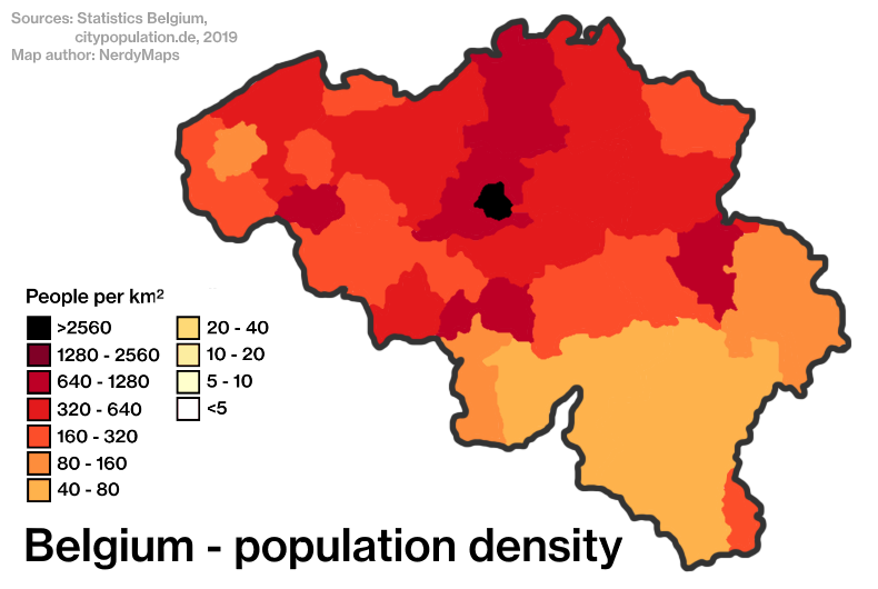 A map representing population density in Belgium by arrondissement, as of 2019.